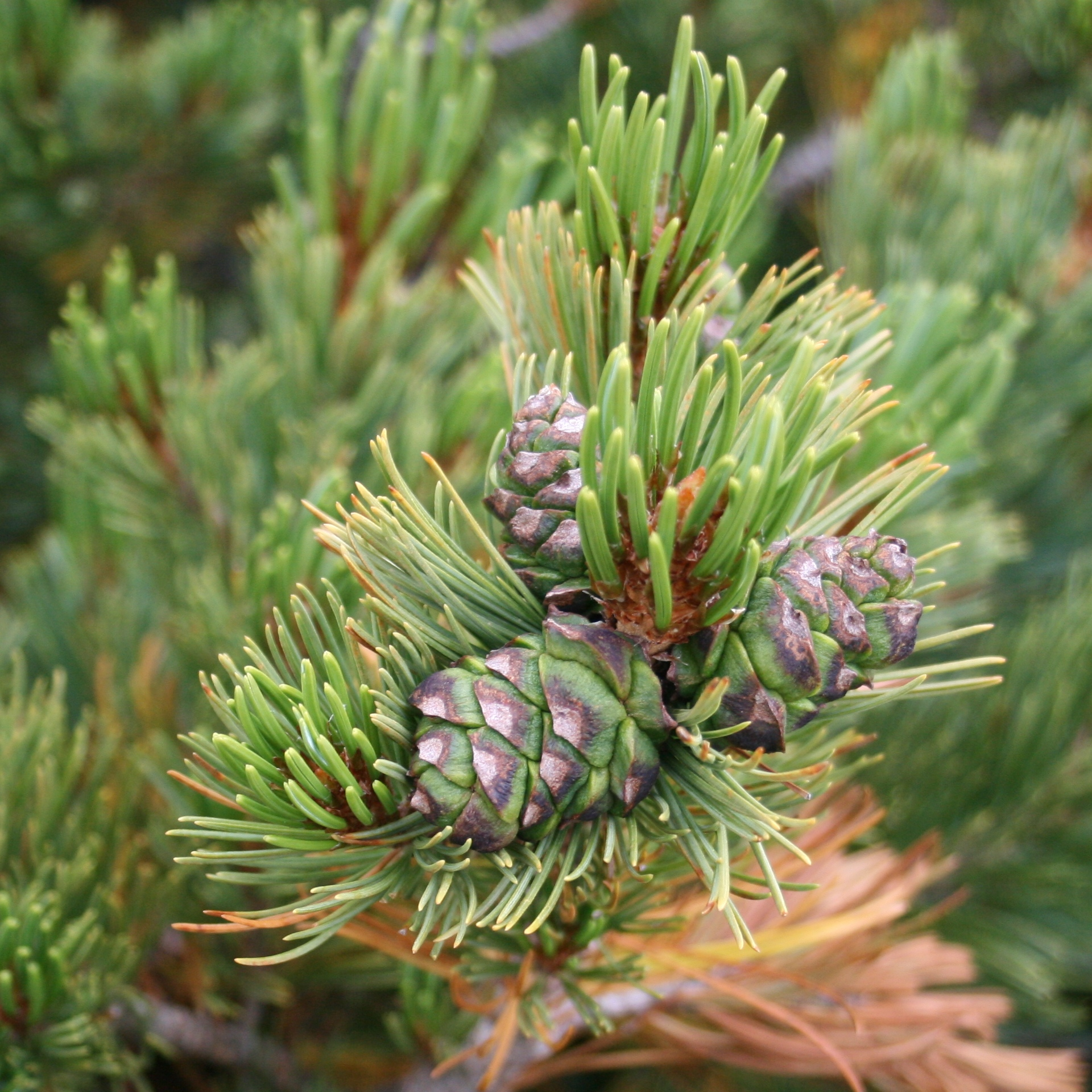 Pinus pumila, fruits in Mount Ontake, Japan.